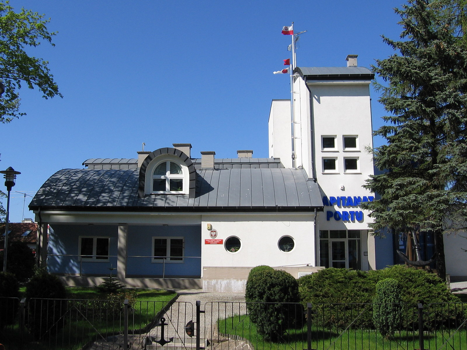 Port Master's Office